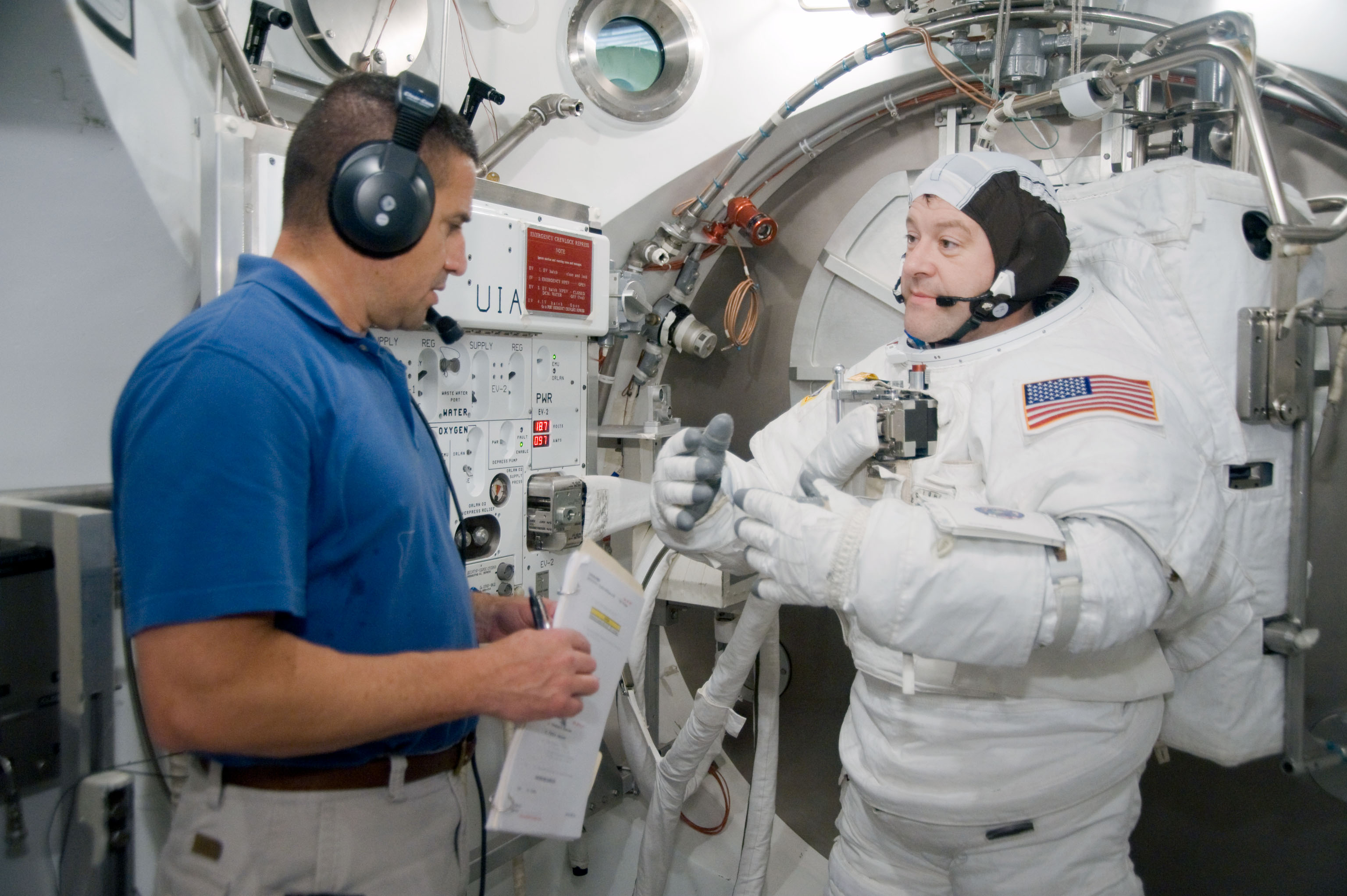 Astronaut Nicholas Patrick, STS-130 mission specialist, participates in an Extravehicular Mobility Unit (EMU) spacesuit fit check in the Space Station Airlock Test Article (SSATA) in the Crew Systems Laboratory at NASA's Johnson Space Center. Astronaut George Zamka, commander, assisted Patrick.